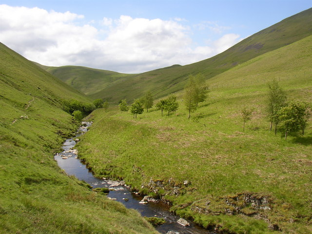 The Usway Burn Young trees getting established along the valley